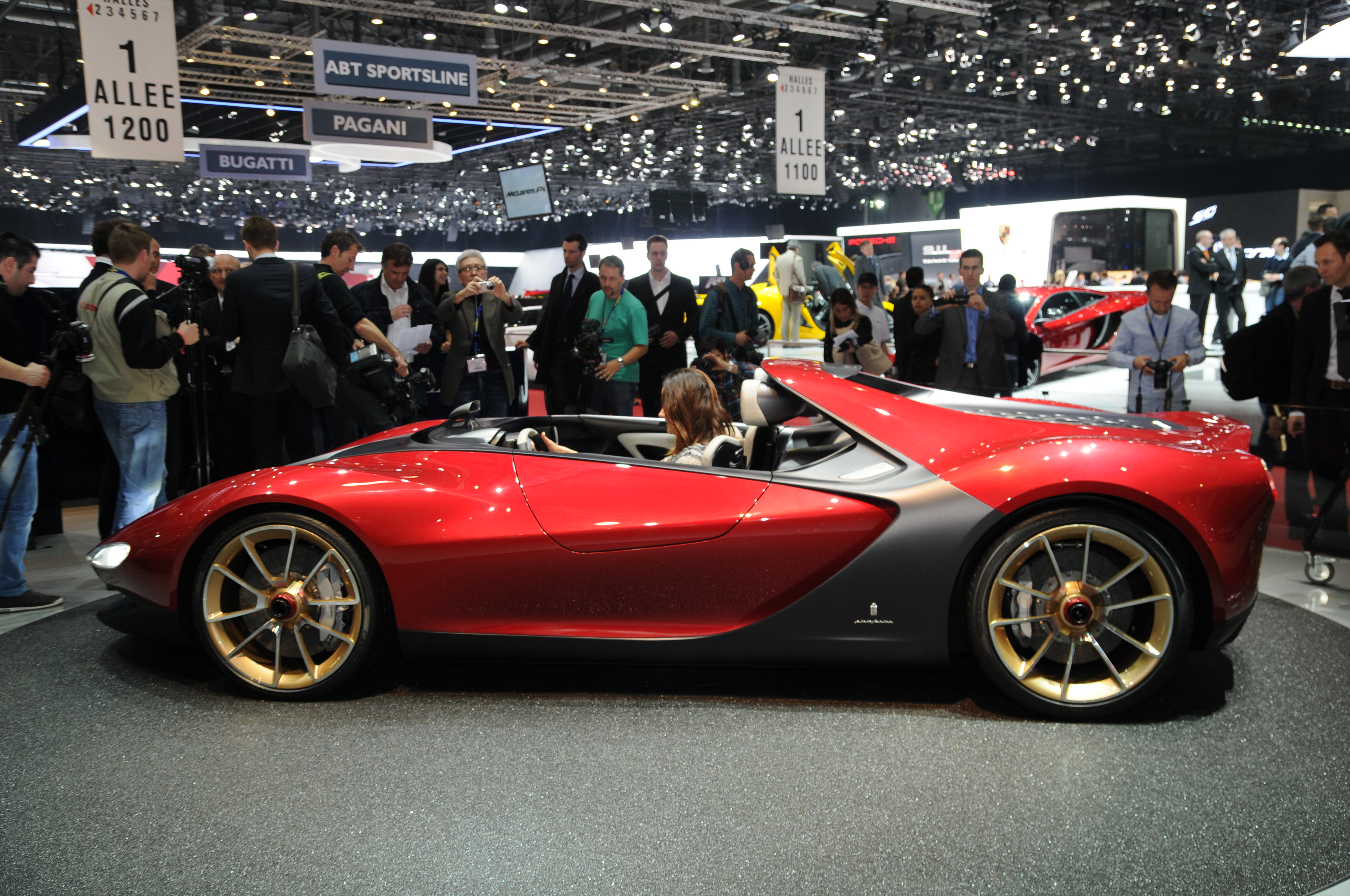 Geneva Motor Show 2013 (photos taken on the first press day)